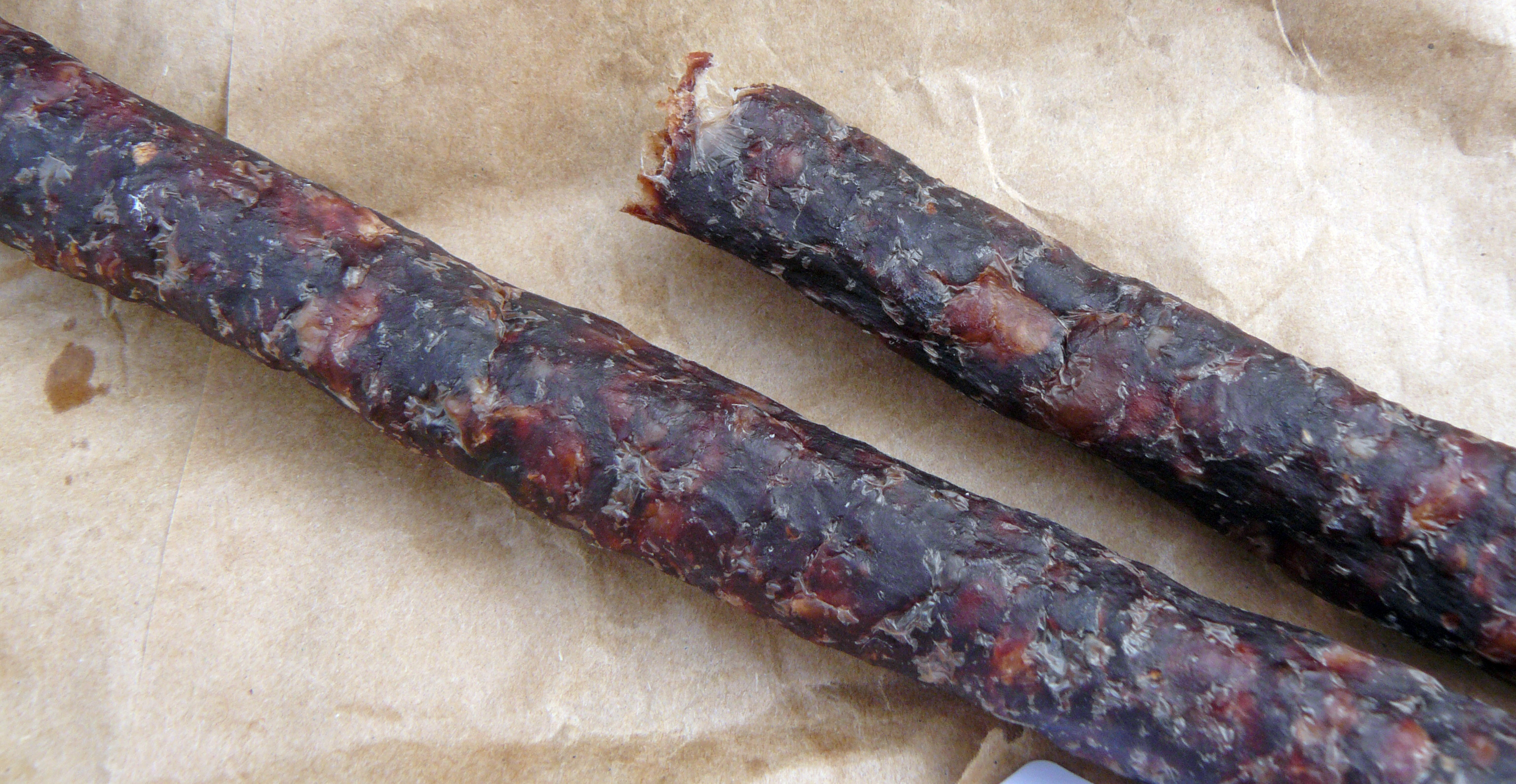 A piece of droë wors